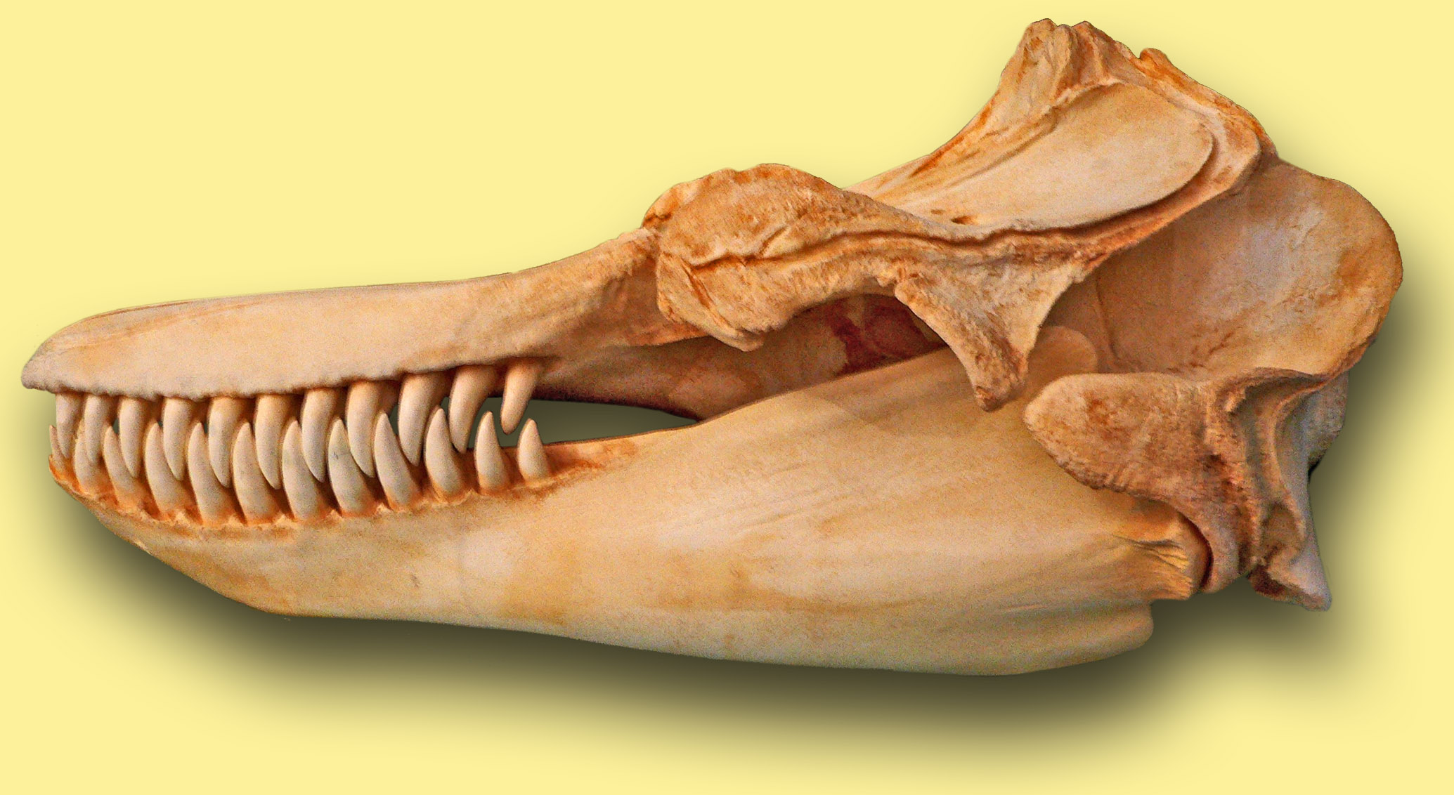 Skeletal head of an Orca (Orcinus orca, Museum Koenig, Bonn)